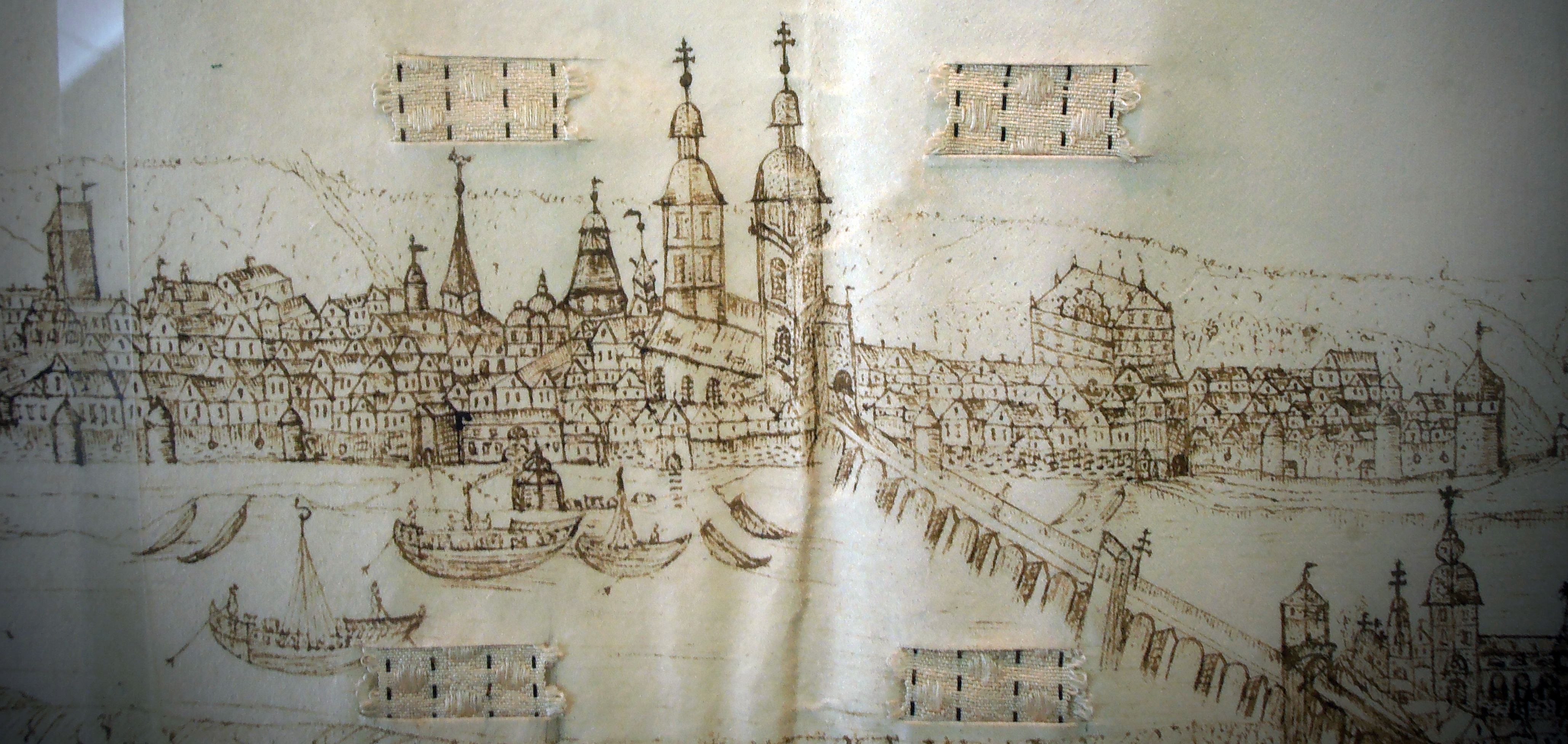 Die Handwerkskundschaft des Georg Neubert aus dem 18. Jahrhundert